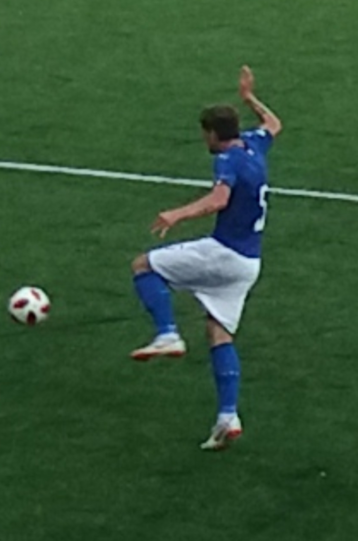 Zaniolo with Italy in 2018 UEFA European Under-19 Championship semifinal Italy-France in Vaasa, Finland.